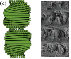 graphical recreation of what a bouligand structure would look like in simplest form next to an SEM image of a chitin bouligand structure in a dactyl club